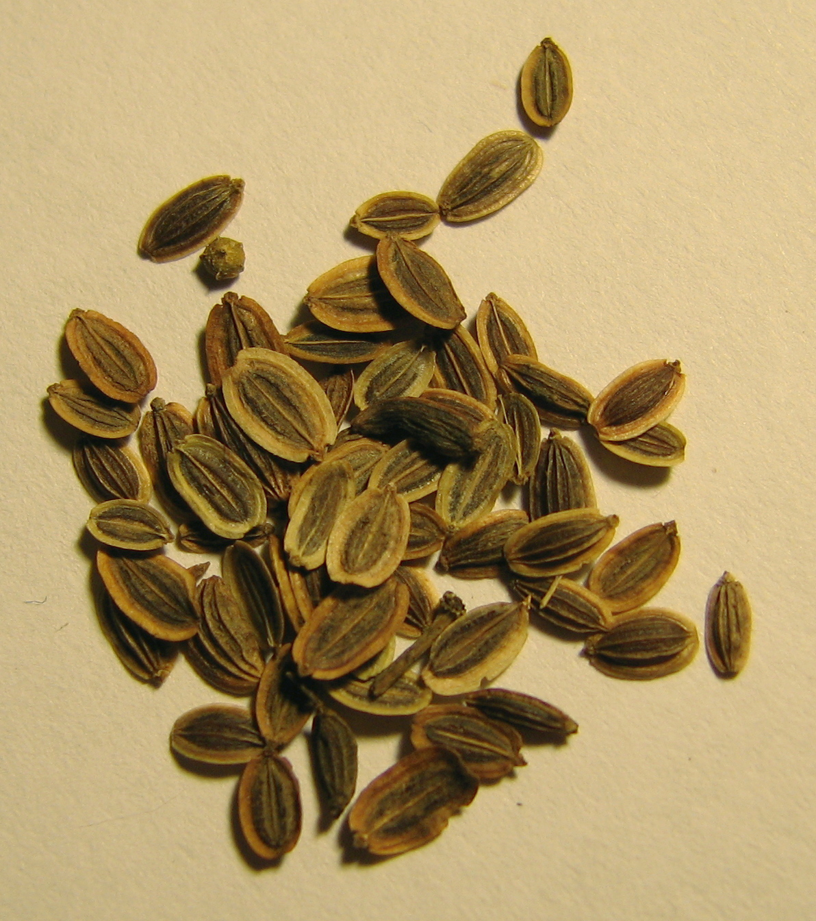 Dill seeds